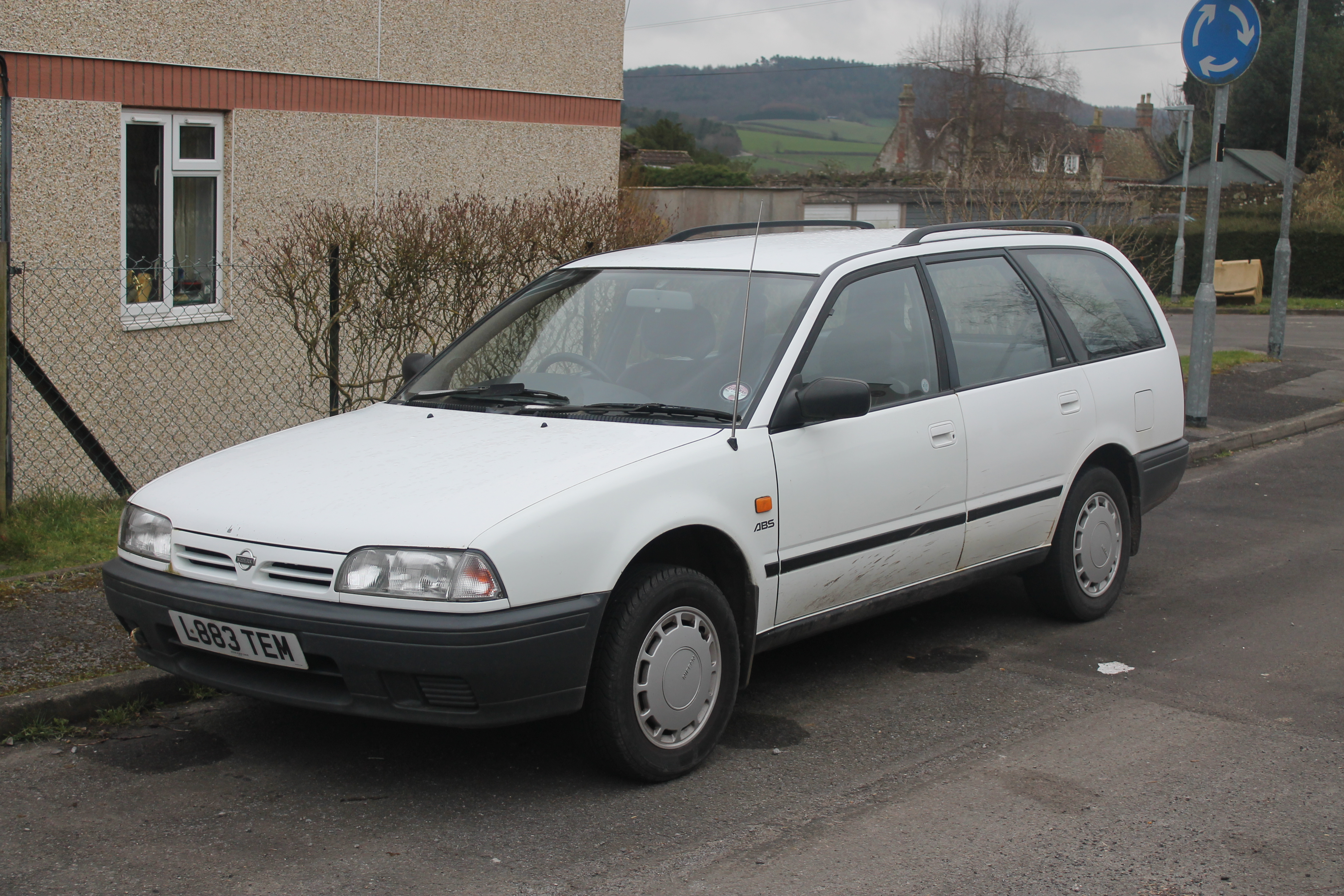 What a beauty! I don't often come across earlier Primeras these days, and it's been a while since I last saw one of the very attractive estates. I must say this one looks nowhere near its 20 years of age, it's a really really nice example, must be one of the best survivors. It did look pretty much spotless (even for a white car) and even has those lovely Bluebird wheeltrims. I really like this one. Lower spec too, the LX was second from bottom. The estates look different from the saloons, and I think these were made in Japan. The vehicle details for L883 TEM are: Date of Liability 01 06 2015 Date of First Registration 18 02 1994 Year of Manufacture 1994 Cylinder Capacity (cc) 1998cc CO₂ Emissions Not Available Fuel Type PETROL Export Marker N Vehicle Status Licence Not Due Vehicle Colour WHITE Vehicle Type Approval Not Available